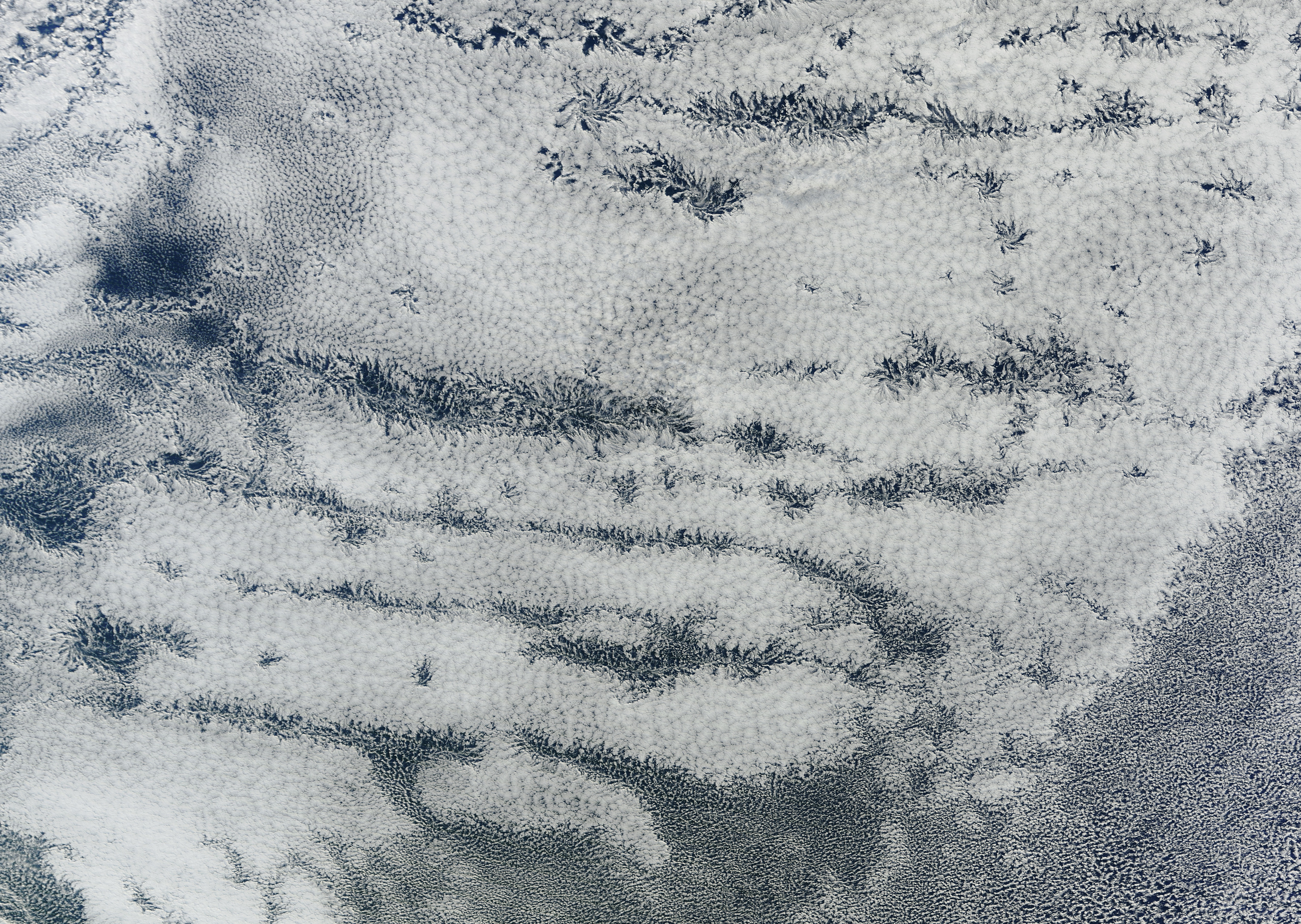 Actinoform clouds seen from Space